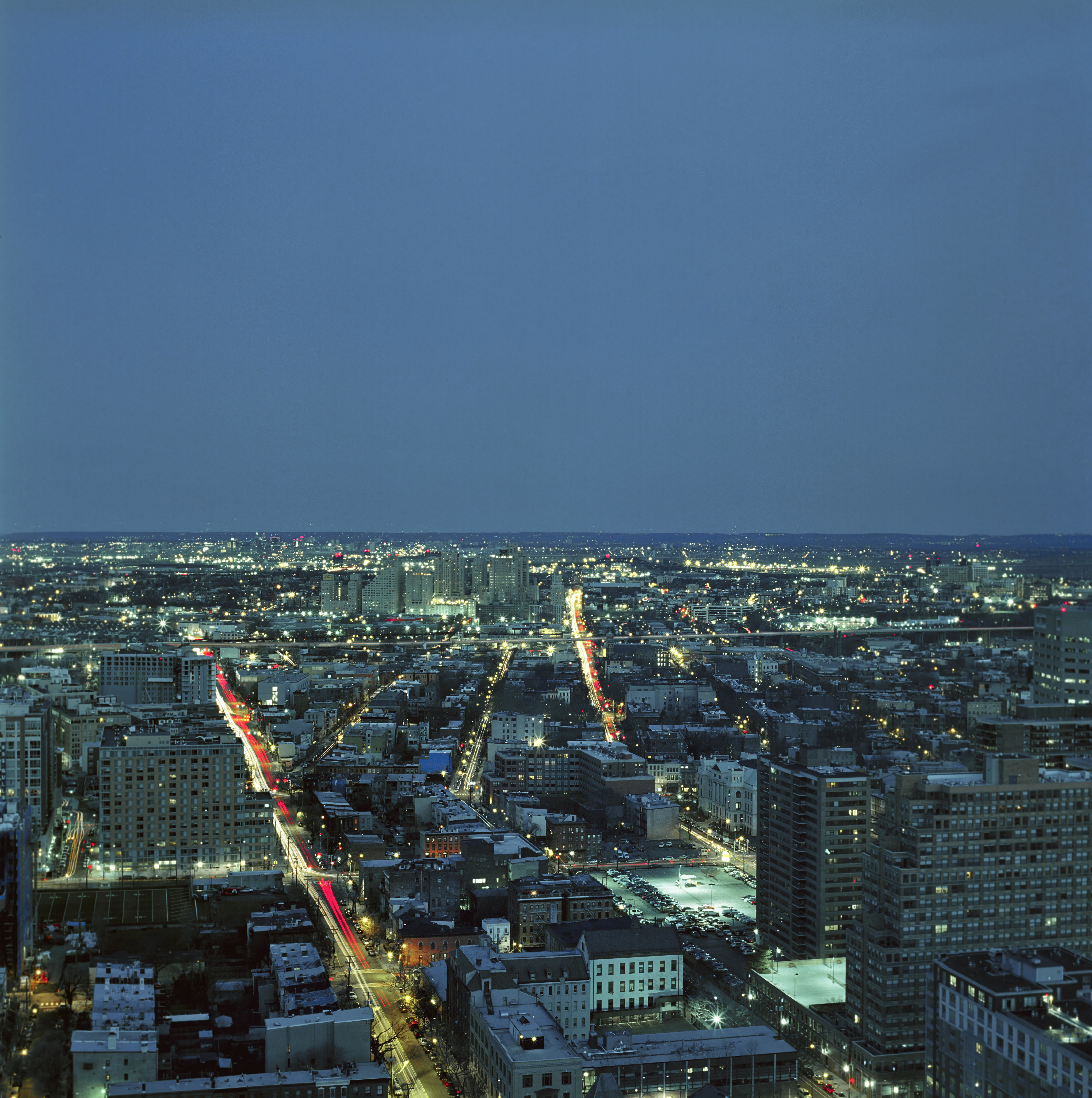 Downtown Jersey City at Night